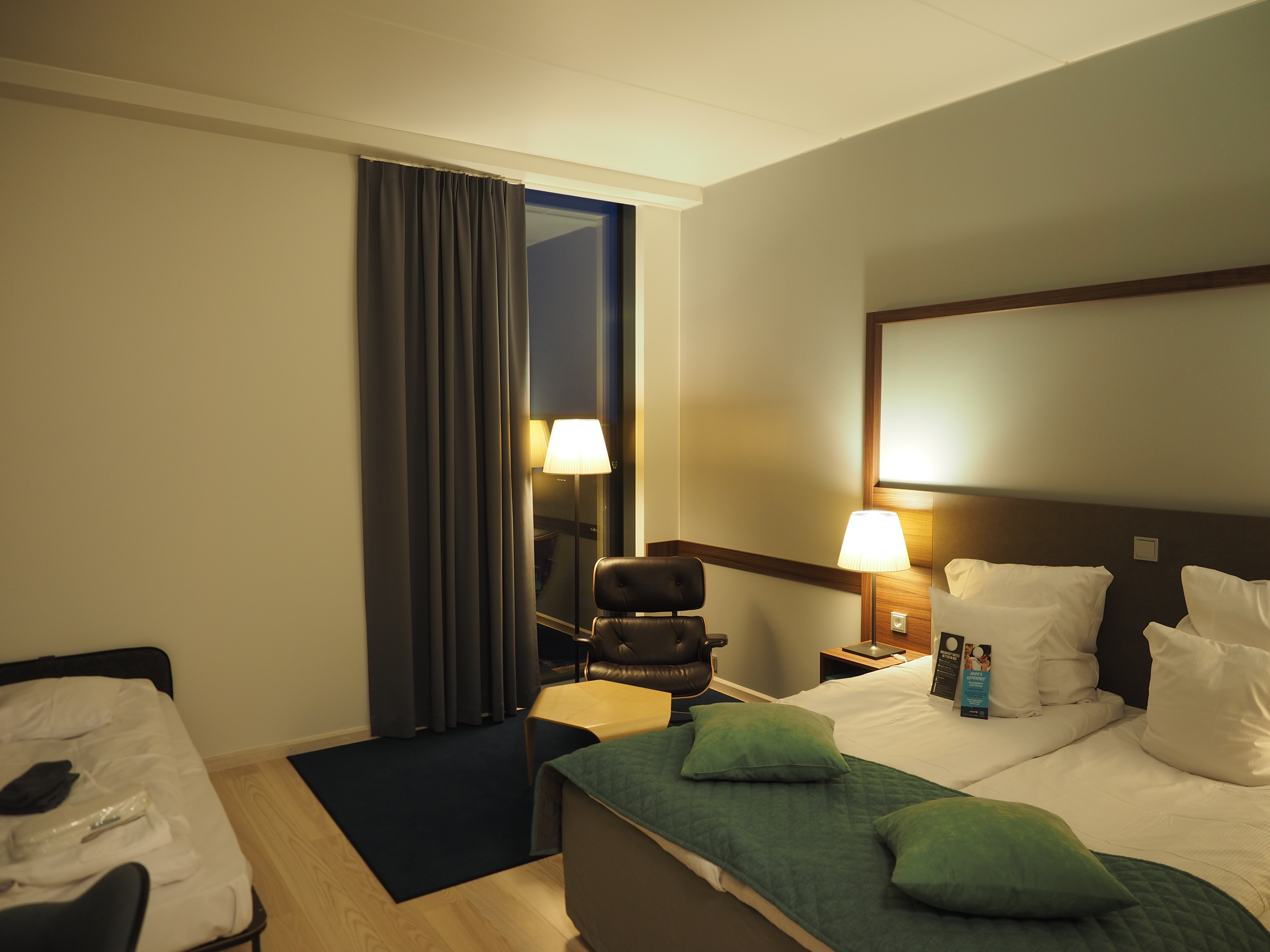 The inside of a deluxe double hotel room at Clarion Hotel Helsinki in Jätkäsaari, Helsinki, Finland.